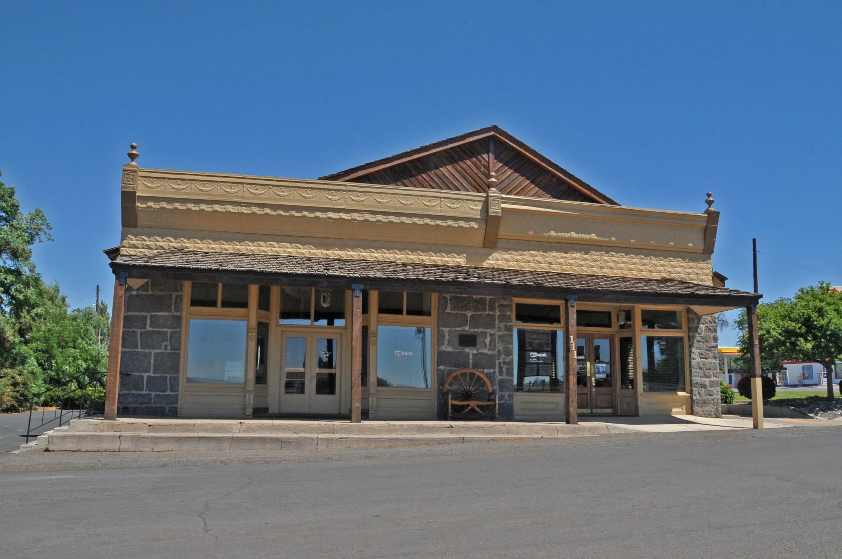 BUILT 1892 AND RAN FOR A SHORT TIME AS A STORE. LATER BECAME A BANK, THEN AN ART GALLERY AND IS NOW BANK AGAIN